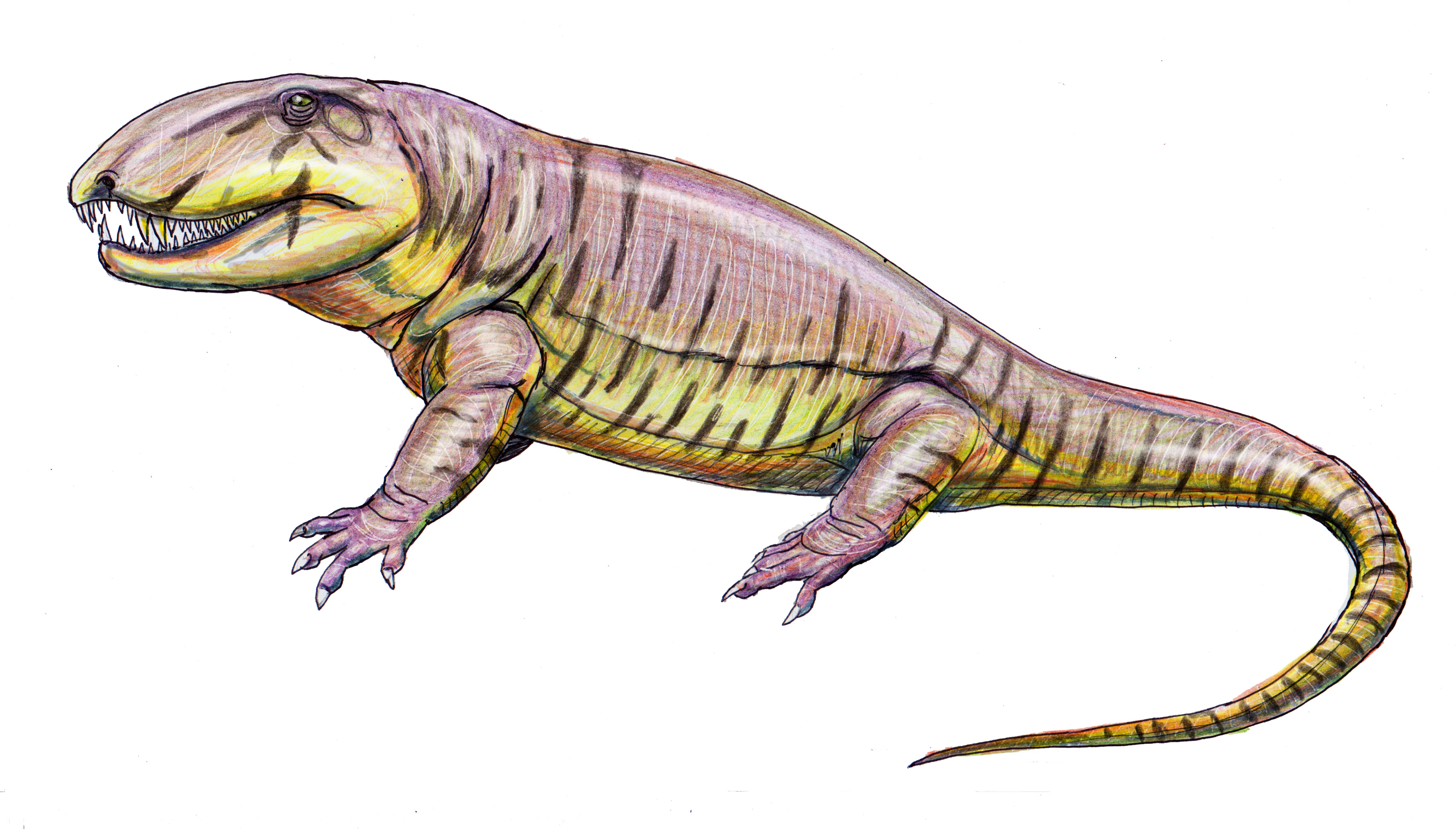 Stereorhachis dominans, ophiacodont from Igornay (Late Carboniferous - Stephanian - of France)